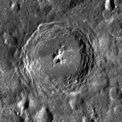 LROC image of Robertson crater, its lower half is crossed by bright rays from nearby Ohm .